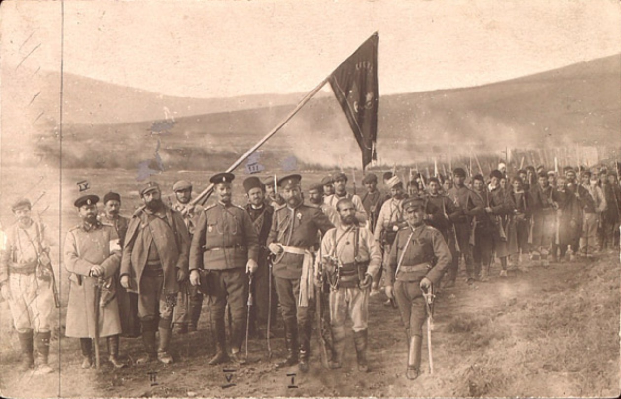 Yane Sandanski, together the bulgarian army